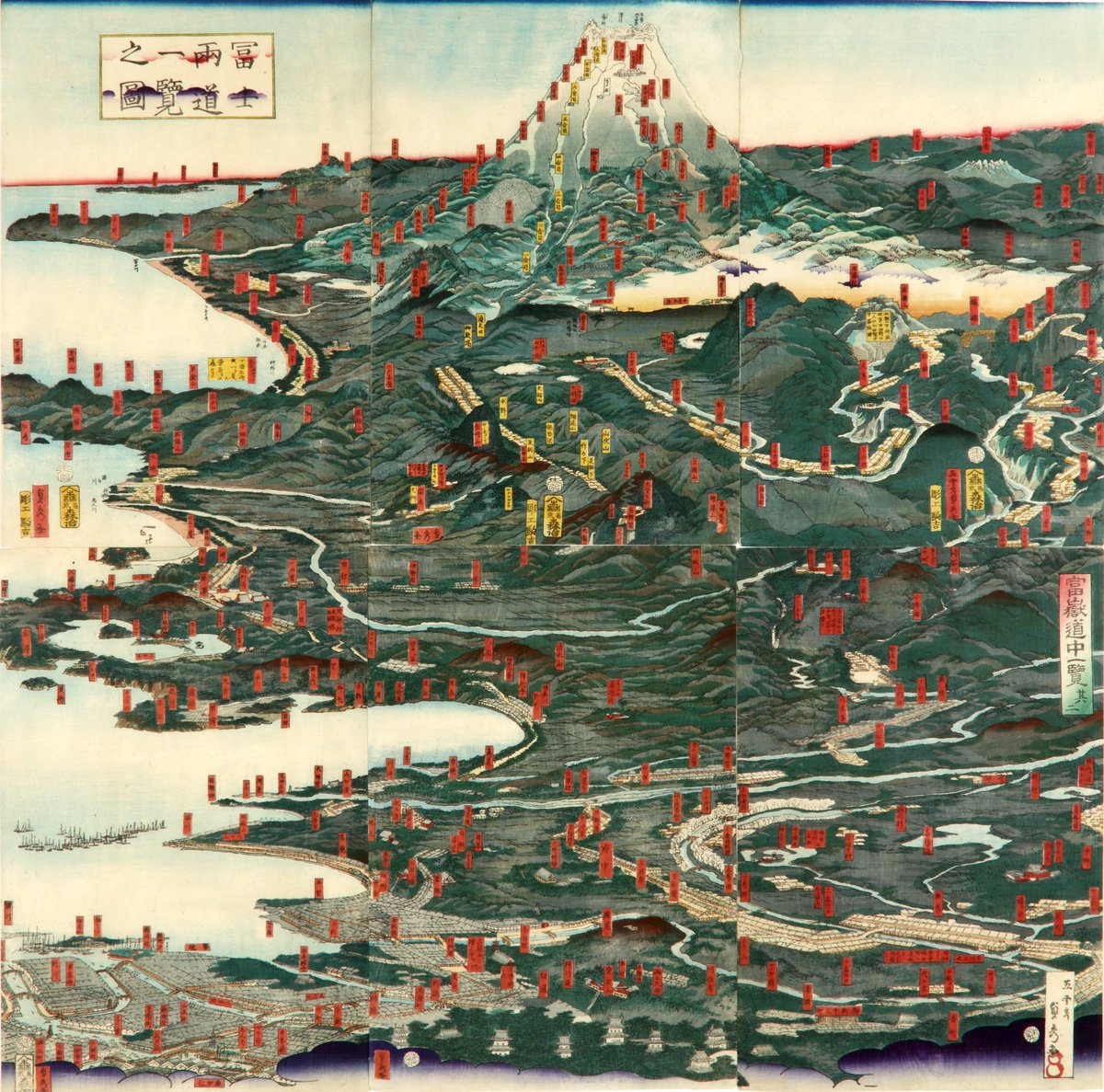 Meiji Classics Association Tanabata Old Book Auction. Sadahidega "Fuji two-way list and Togashi list". Depicts the way to Mt. Fuji and the surrounding attractions. From the year 1859 CE. Panoramic view of routes to Mt. Fuji